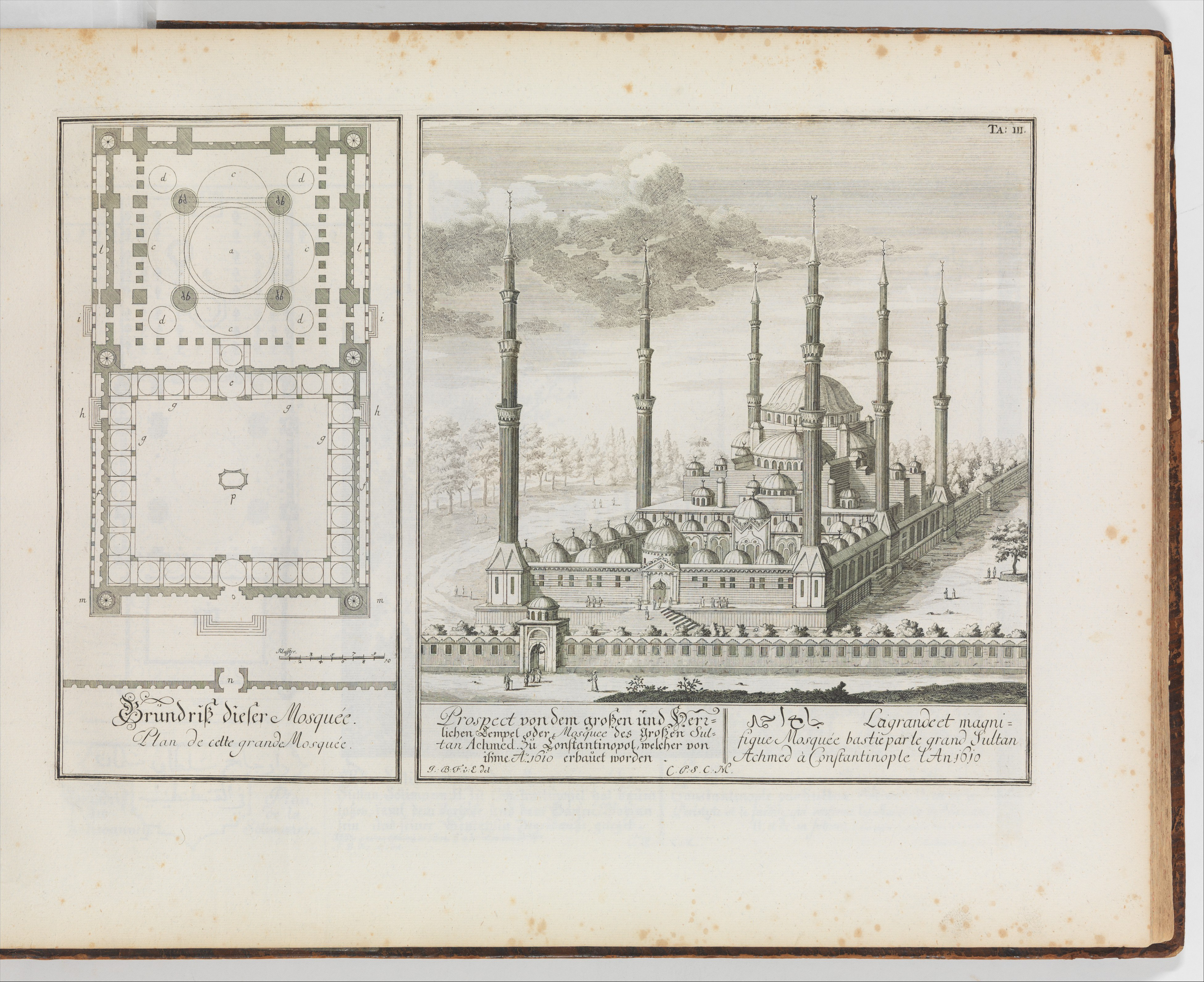 Book ; Ornament and architecture; Books